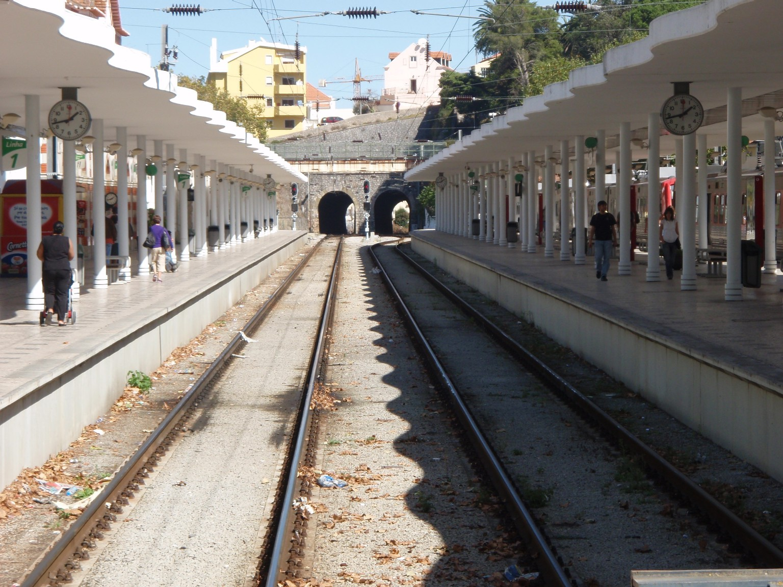 Sintra train station at Sintra Line, Sintra, Portugal